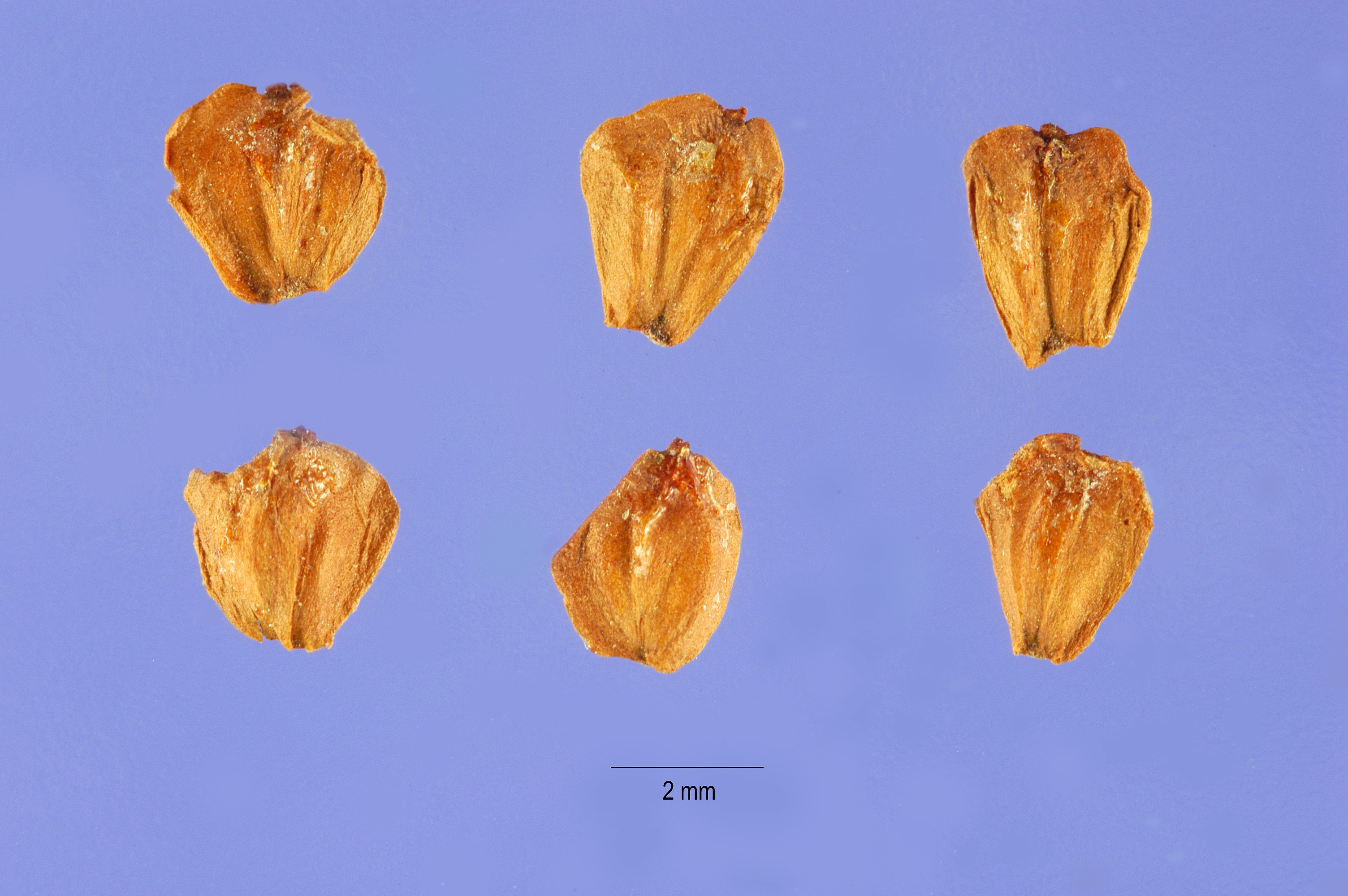 Grey Alder. Family Betulaceae. Seeds. Collected: United Kingdom, Scotland.